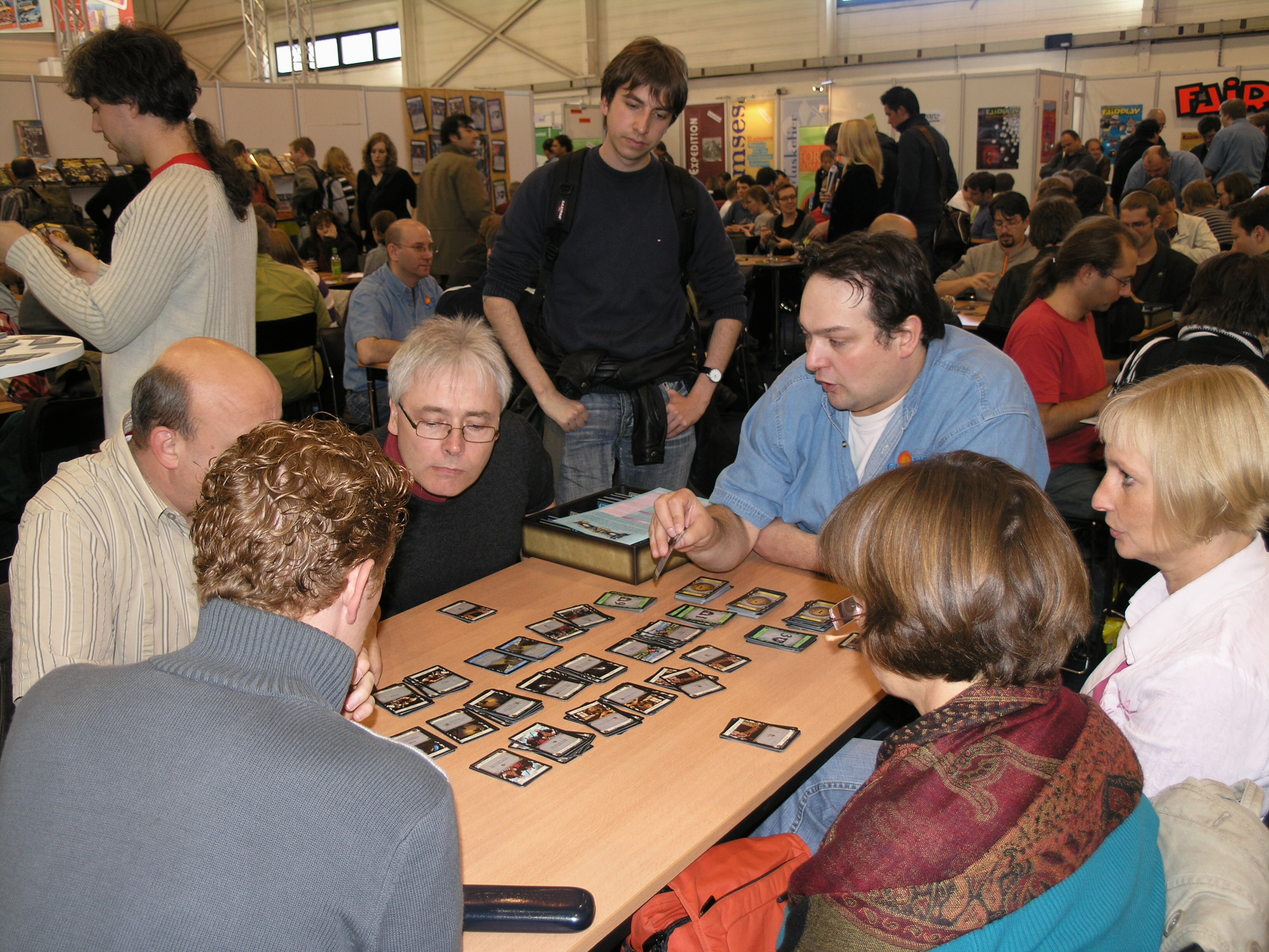 Personality rights warning Although this work is freely licensed or in the public domain, the person(s) shown may have rights that legally restrict certain re-uses unless those depicted consent to such uses. In these cases, a model release or other evidence of consent could protect you from infringement claims.